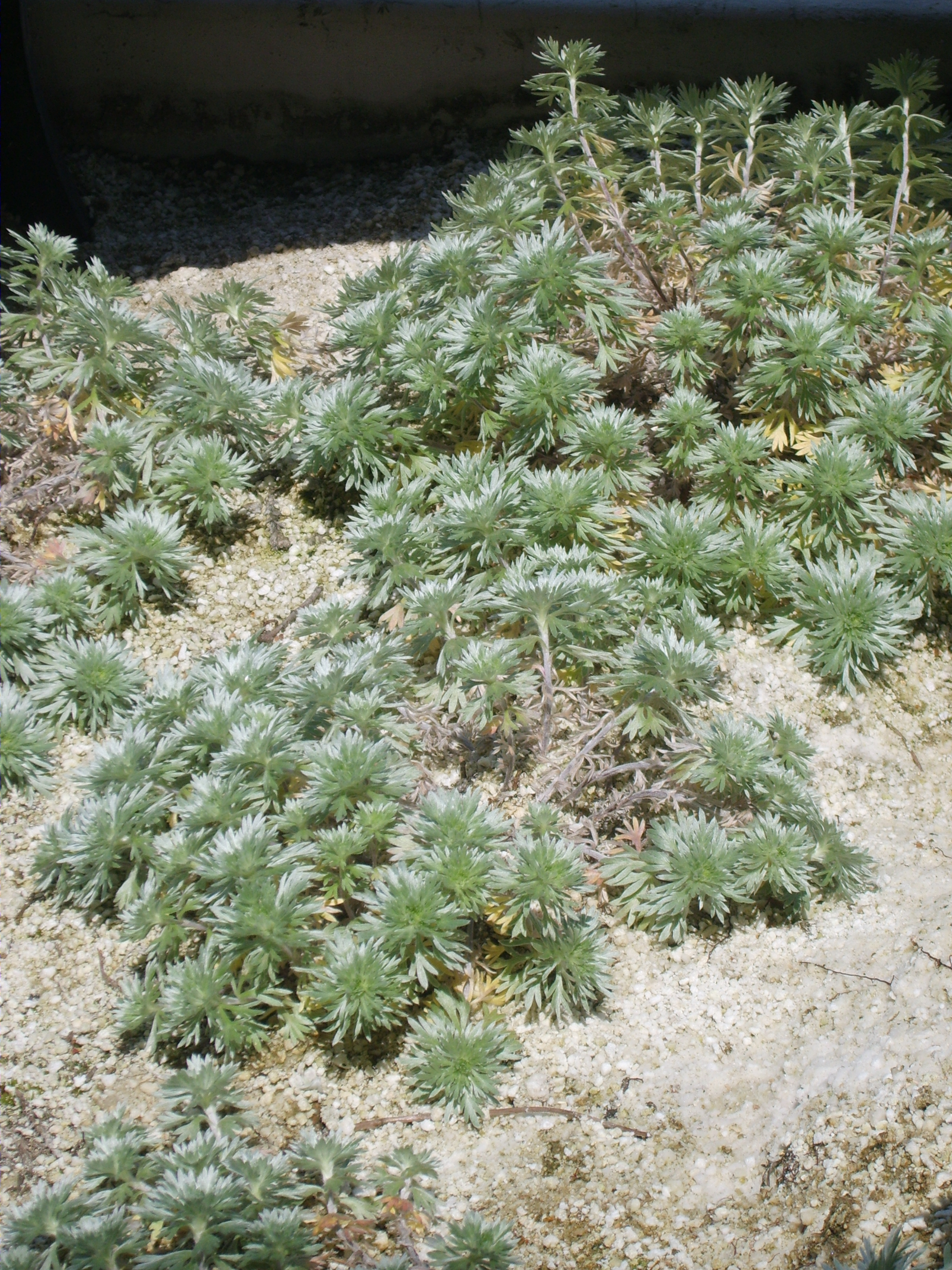 Artemisia laciniata in Incheon, Korea